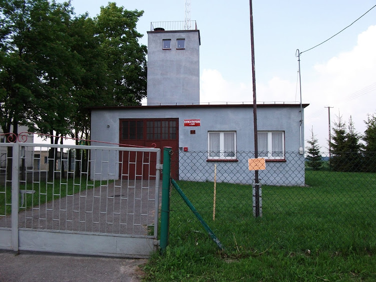 Słup; Gruta community